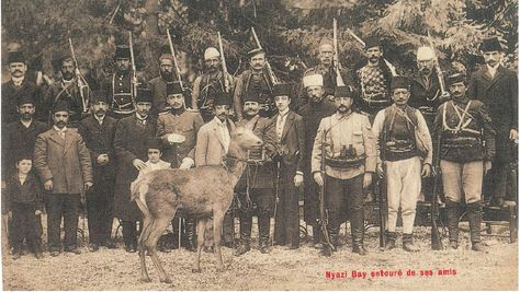 Young Turk Revolution key event - Ahmet Niyazi Bey and his supporters. The Resen town mayor Hoca Cemal Efendi can be seen (tall, with white skullcap and black robe) two persons to Niyazi’s left.